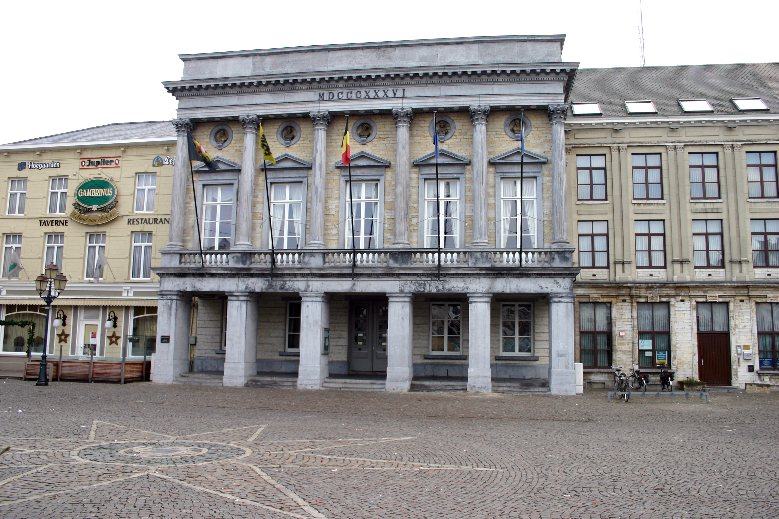 Town hall on Grand Square in Tienen (The Flanders, Belgium)